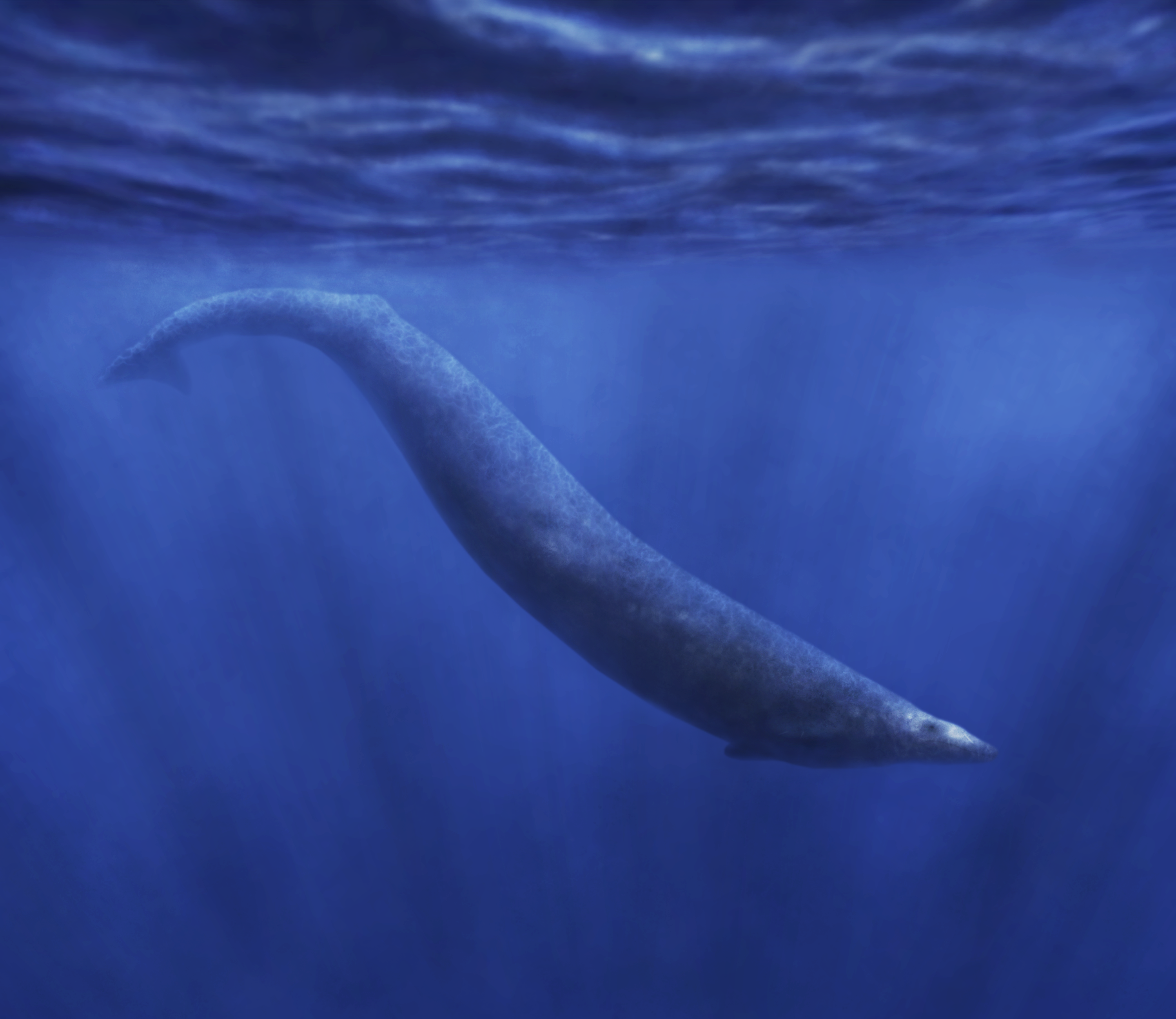 Reconstruction of Basilosaurus cetoides with the goal of being less shrinkwrapped than common used ones.